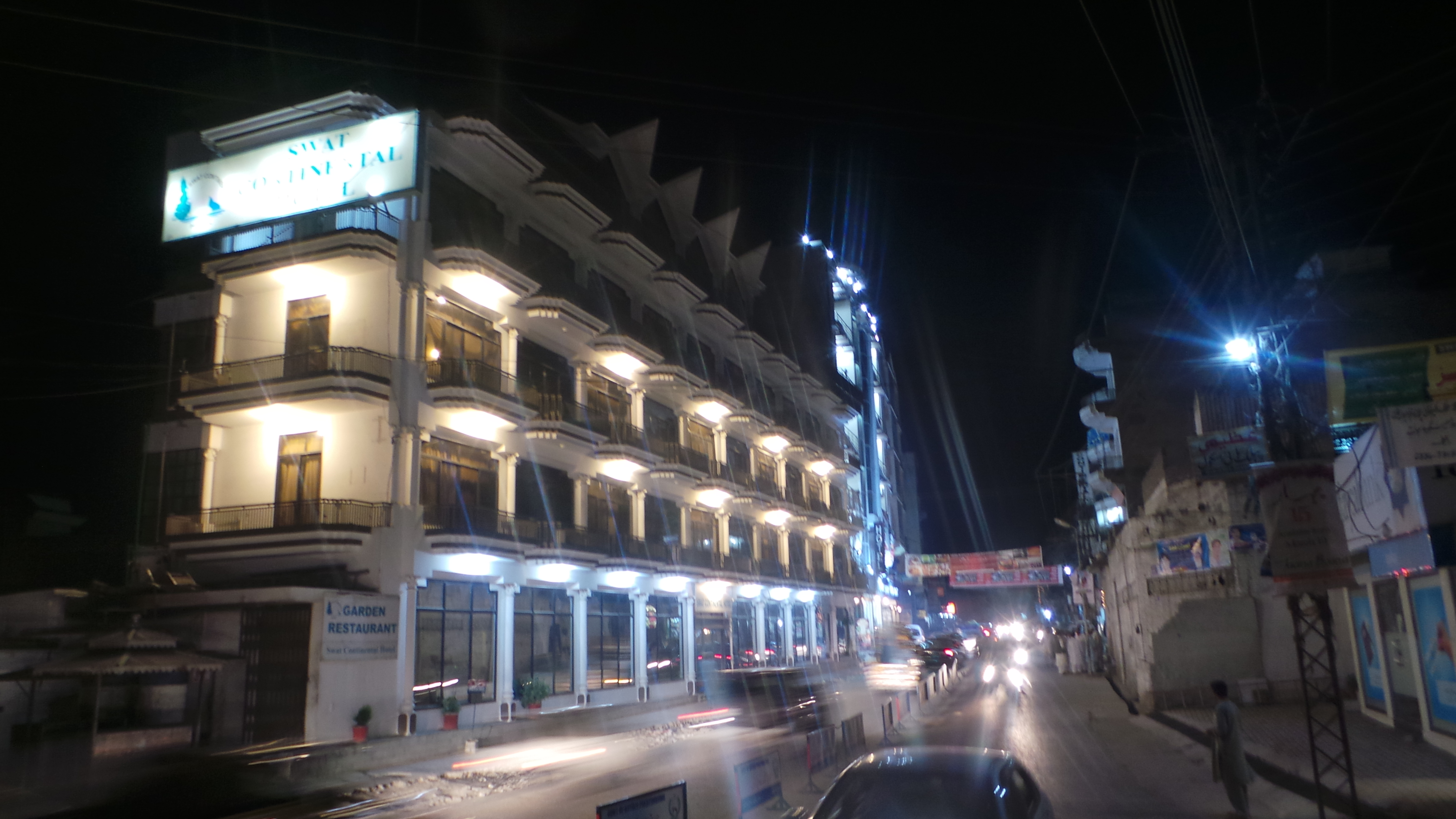 Continental hotel mingora